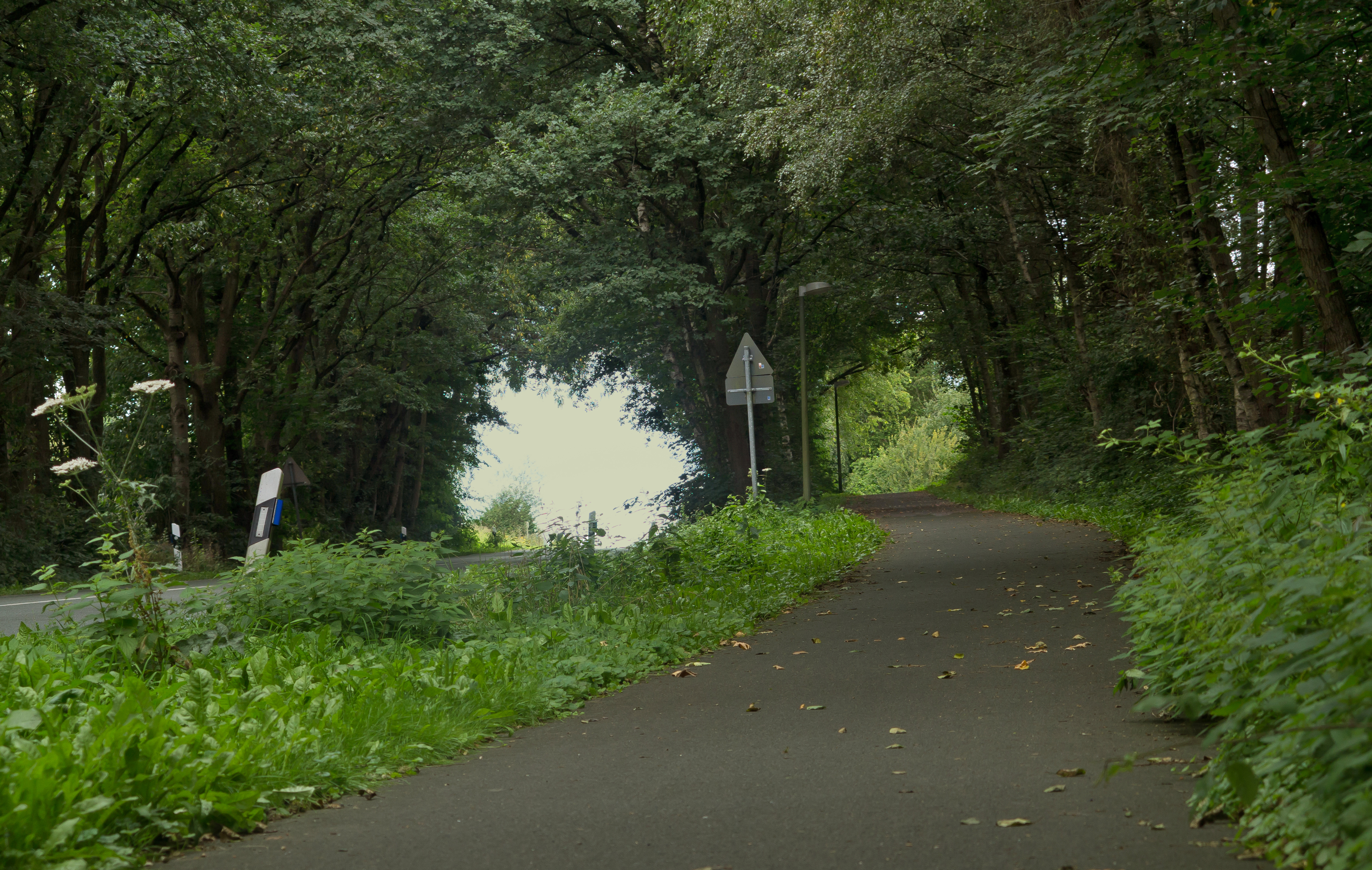 between Lavesum and Haltern am See, cycle track and motor way through the trees